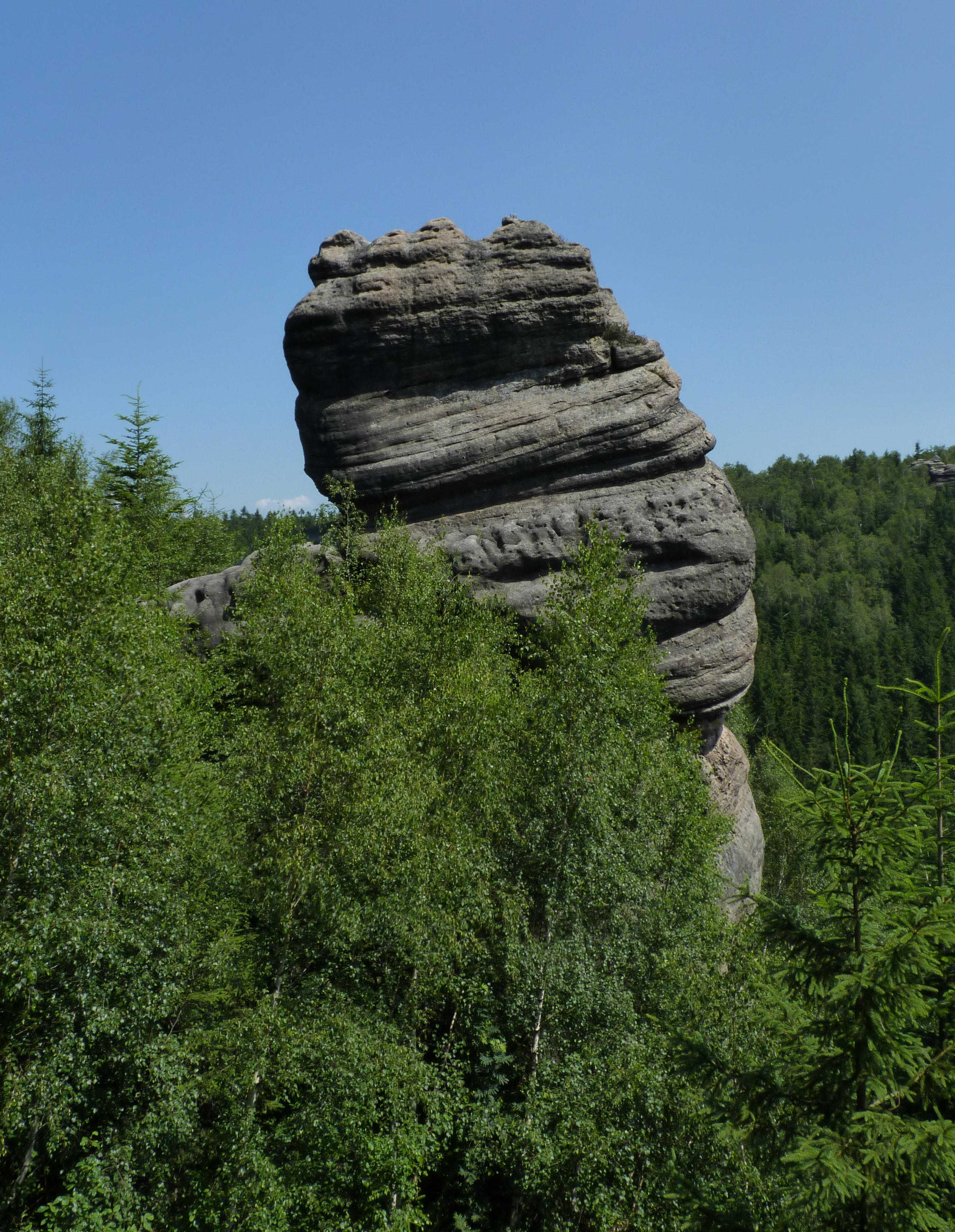 Protected landscape Broumovsko, Czech Republic